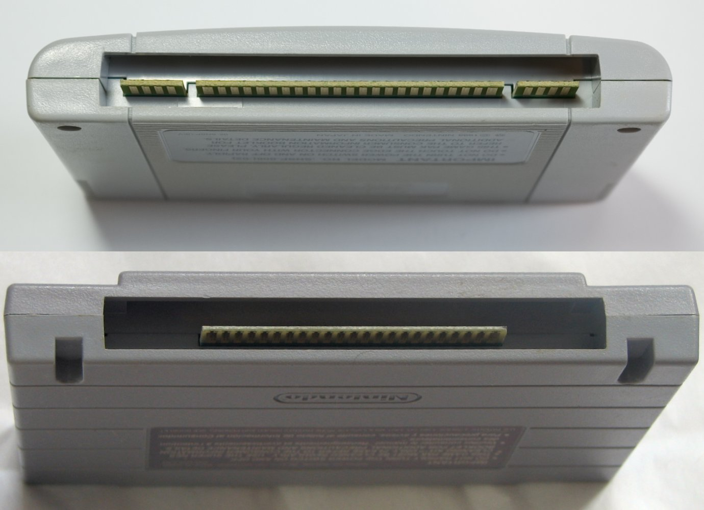 Comparison of SNES cartridge shapes: The PAL region cart (top) has a smoothly curved front edge, while the North American version (bottom) is boxy, wider, and has notches on the back edge on either side. Note also the two additional small card edges present only in the top image; these optional edges are usually present only on carts containing expansion chips.